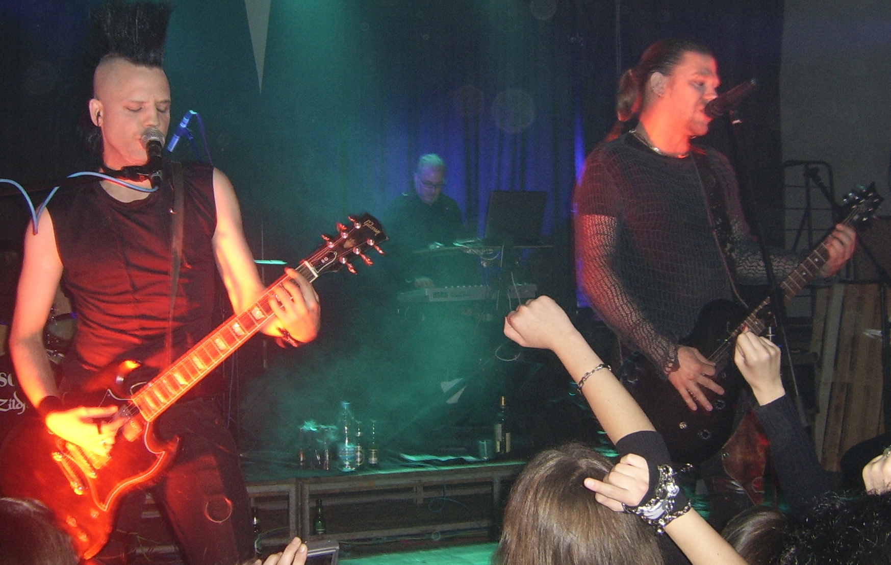 A gig of Diary of Dreams in Sofia, 25.10.2008